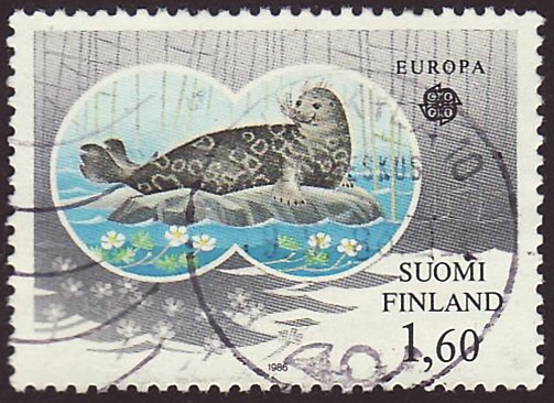 Stamp of Finland; 1986; commemorative stamp to the issue "EUROPA 1986 - Nature Conservation"; drawing with a Saimaa Reinged Seal in binocular view; stamp postmarked in Jyväskylä, 1986 Stamp: Michel: No. 985; Yvert et Tellier: No. 949; AFA: No. 987 Color: multicolored on luminescant paper (with silver grey / light blue as dominating colors) Watermark: none Nominal value: 1.60 (Markka) Postage validity: from 10 April 1986 until 31 December 2011 Stamp picture size (printed area without comma): 37.0 x 25.0 mm